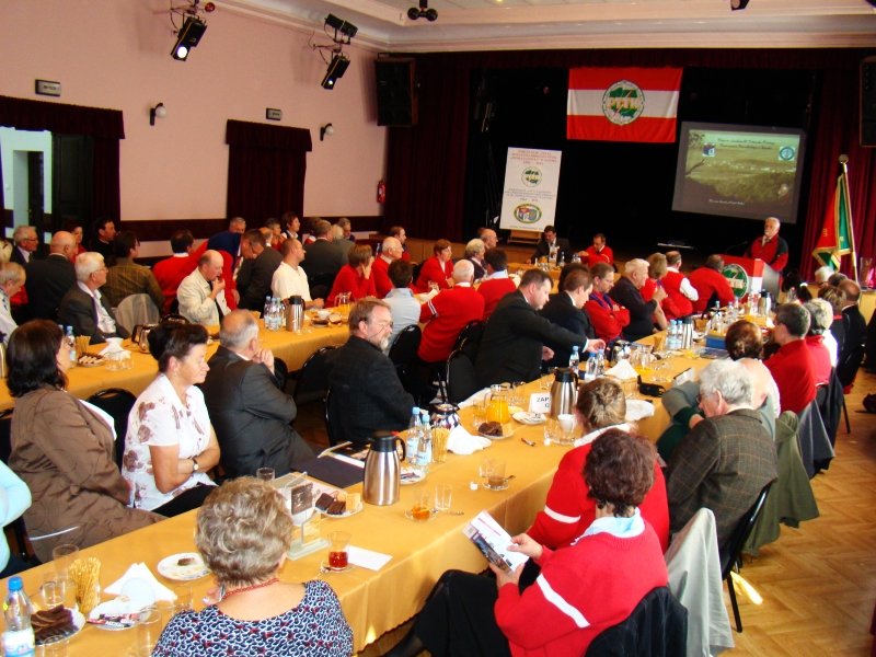 Category:PTTK, Sanok